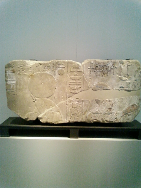 Relief representing the king Amenhotep IV with the god Aton at left - 18th dynasty of Egypt, first years of Amenhotep IV/Akhenaten